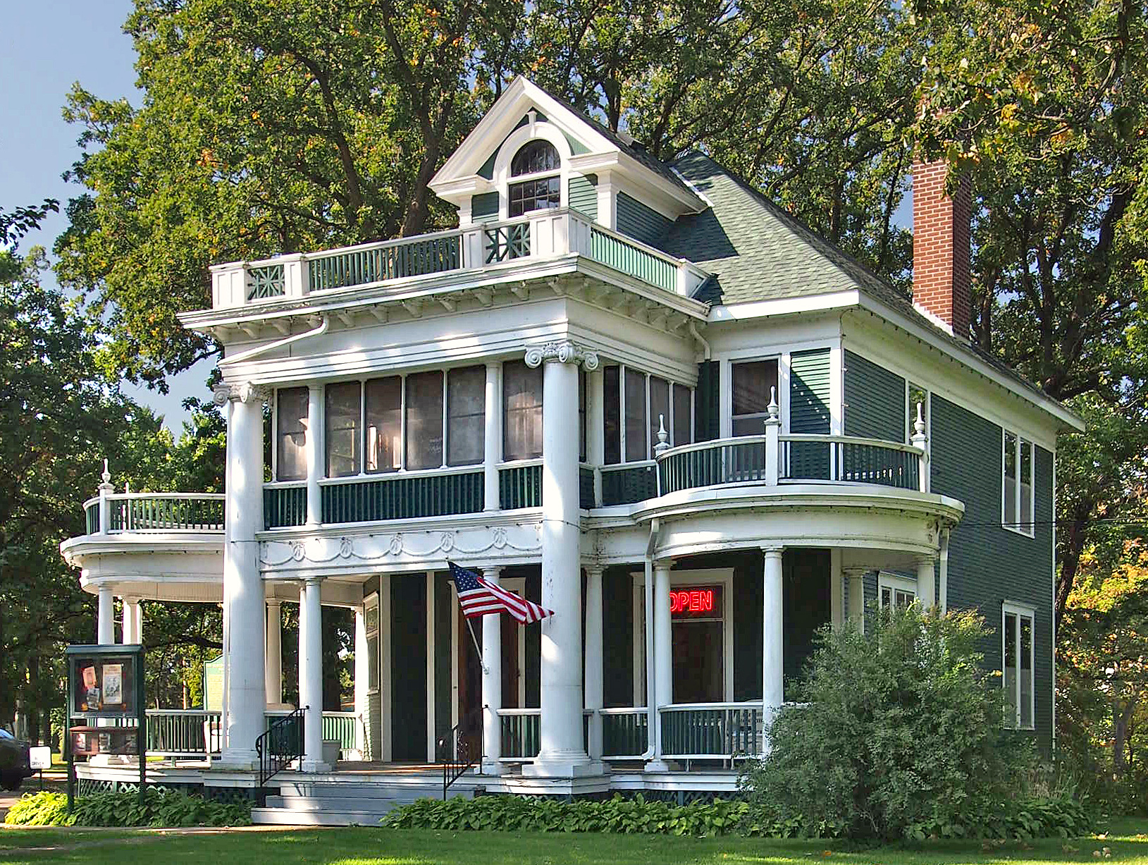 Burton-Rosenmeier House (now the Little Falls Convention and Visitors Bureau), 606 1st St SE, Little Falls, Minnesota, USA. Viewed from the east.